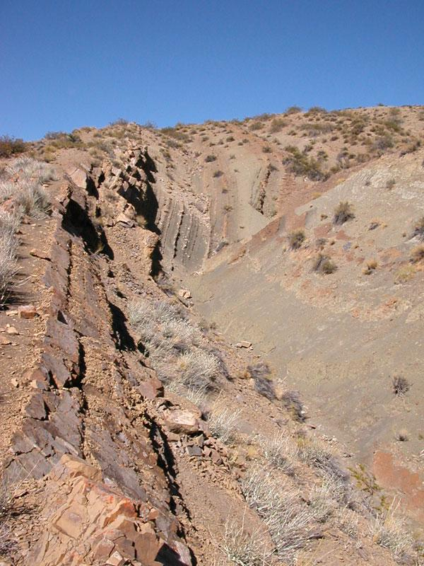 Agrio fm. (Lower Cretaceous) near Pilmatué.